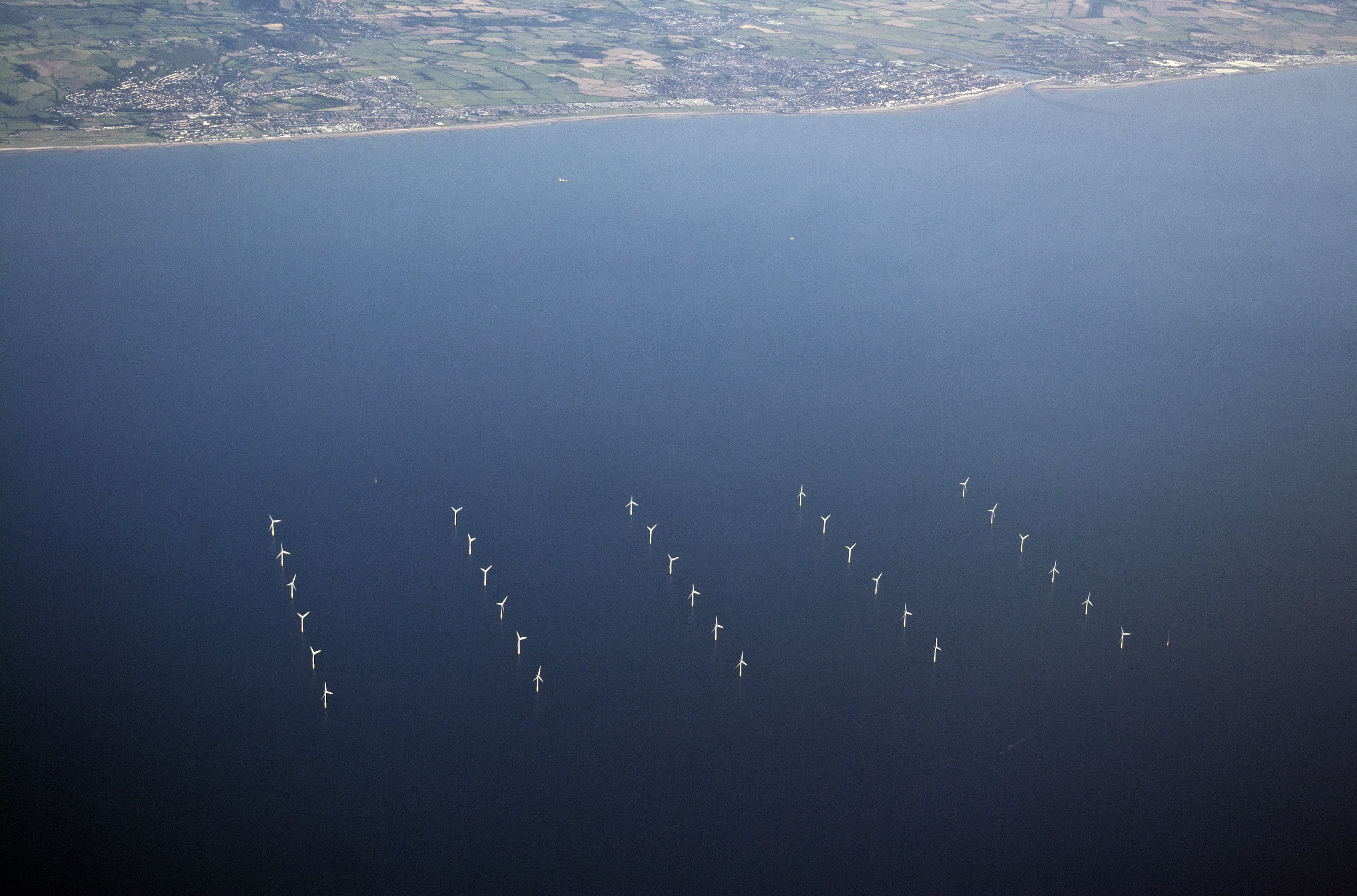 Viewed from a passenger jet